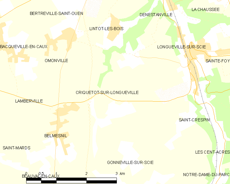 Map of French municipality Criquetot-sur-Longueville